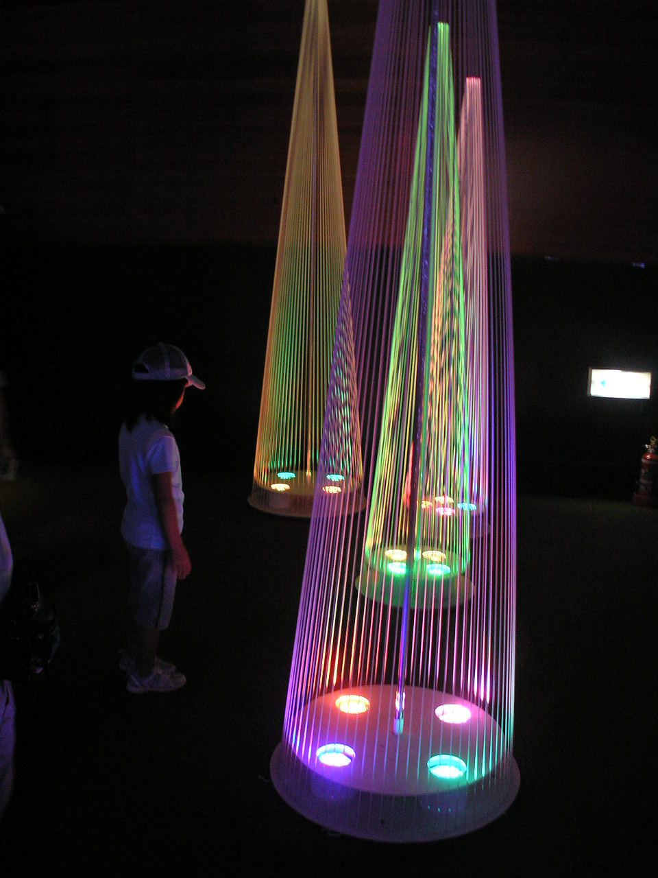 美ヶ原高原美術館－ 光の美術館